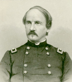 Brig. Gen. Henry H. Sibley Engraver: J. C. Buttre Art Collection, Engraving ca. 1862 Location no. por 7052 r10 Negative no. 86509